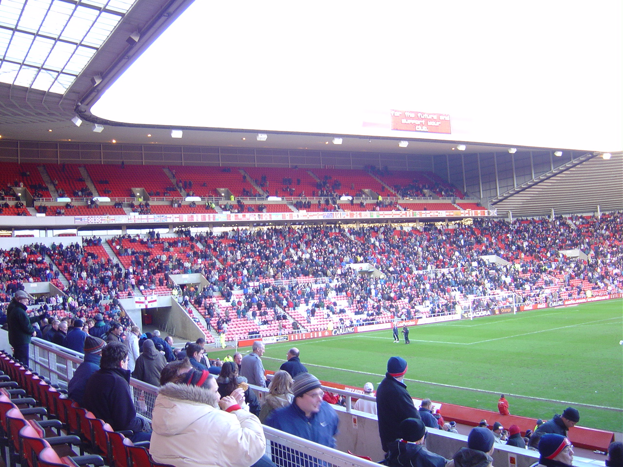 The stadium of light from one of the top stands